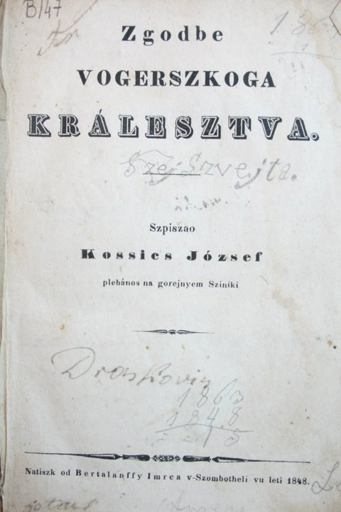 József Kossics: Zgodbe vogerszkoga králesztva (History of the Hungarian Kingdom), first history book in prekmurian language (prekmurščina) from 1848